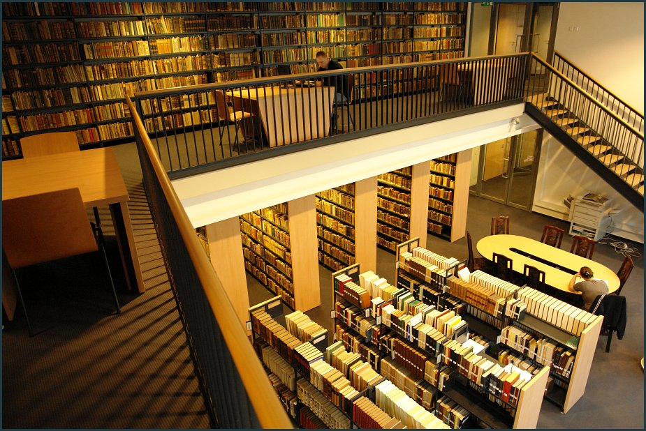 Old and rare books in the Klebelsberg Library of Szeged